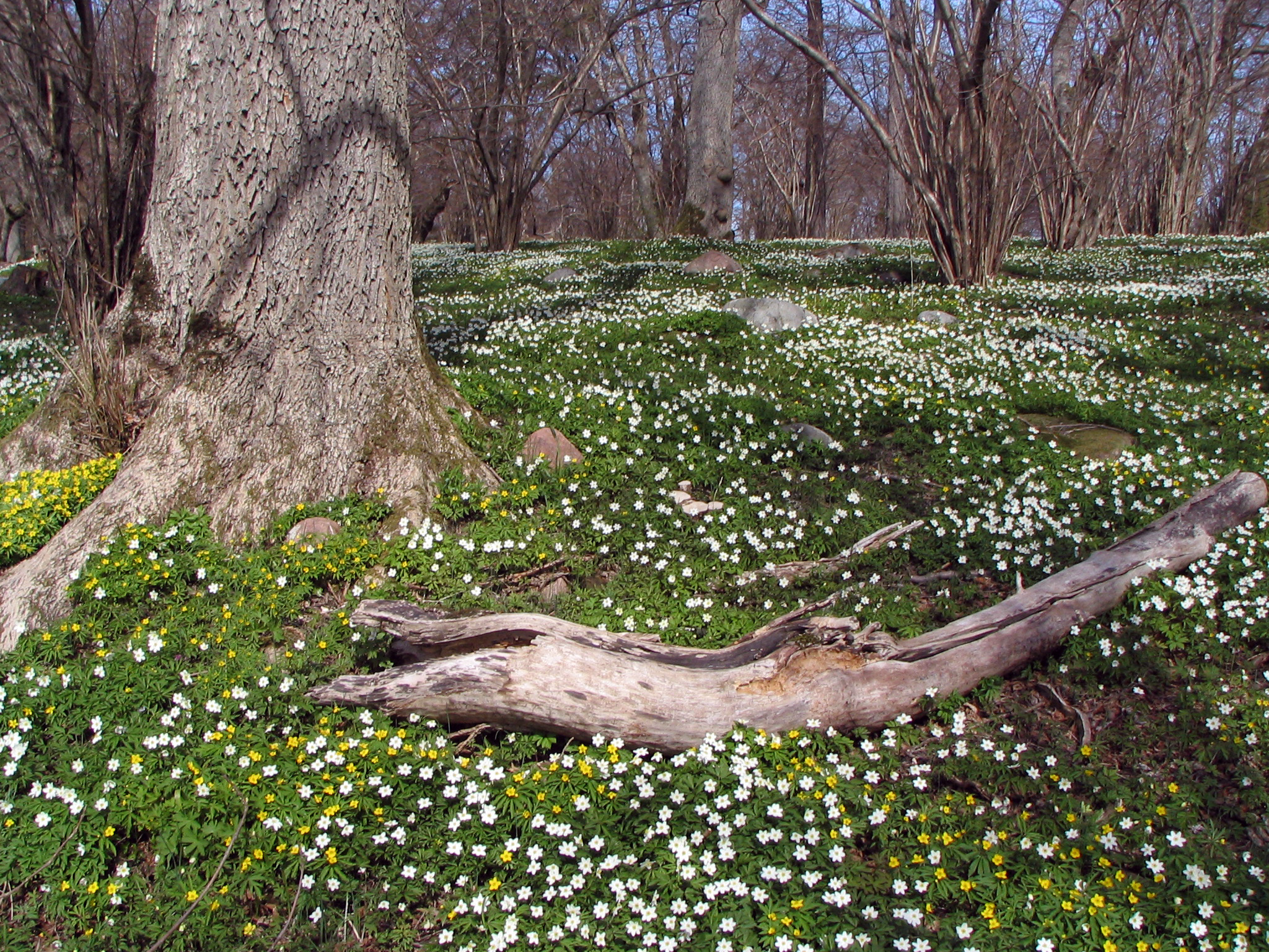 Spring in Ramsholmen nature reserve in Jomala, Åland Islands.